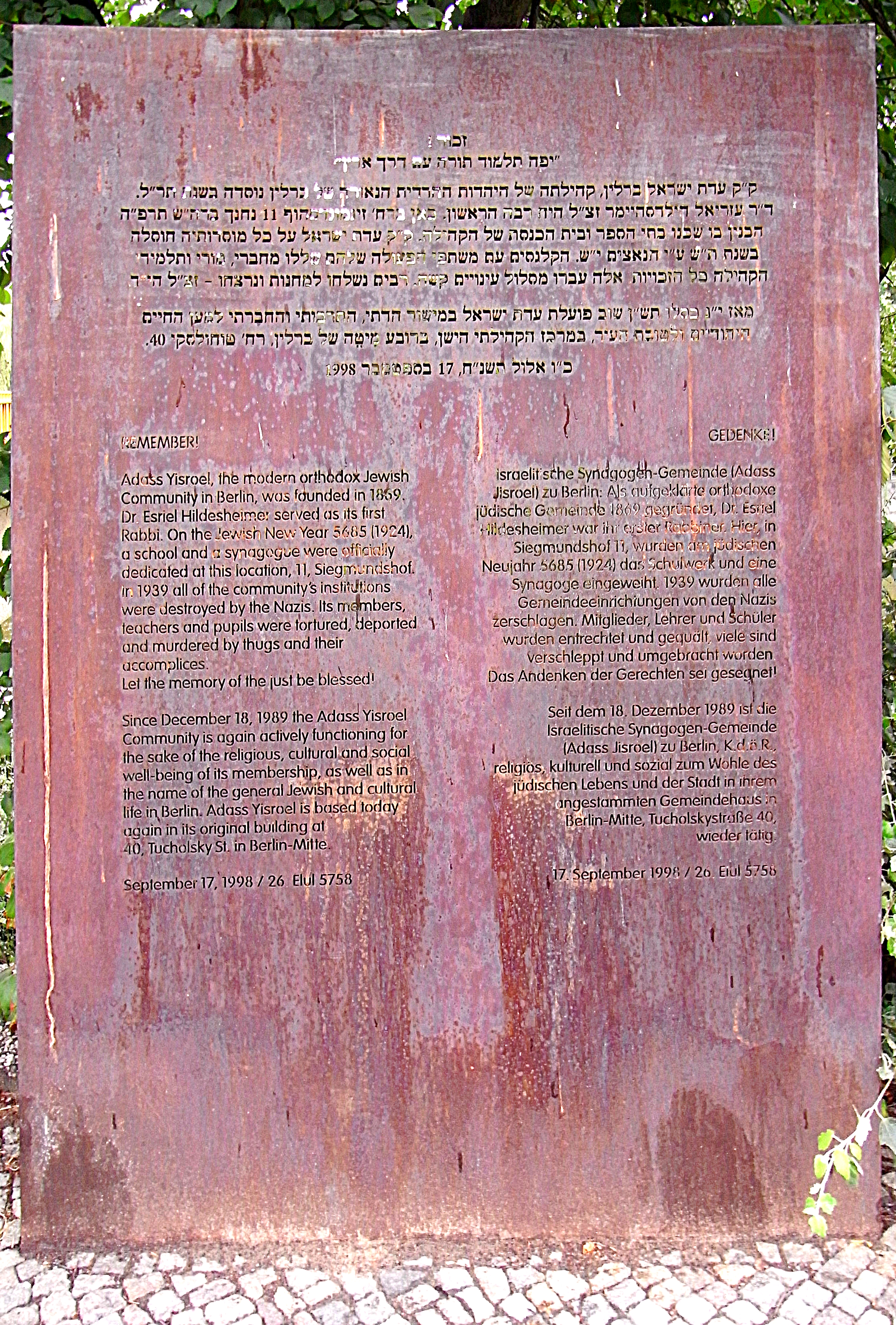 Memorial plate of the Israelitic Synagogue Community Adass Jisroel, erected in 1998, ccorten steel. The writing perforates the metal. The tablet is placed in front of Siegmunds Hof 11, 10555 Berlin-Hansaviertel, in front of the place where the community center of Adass Jisroel had been located. The center was destroyed by bombings in 1943. The tablet was erected in 1998, alongside a sculpture by Georg Seibert, erected in 1986, also remembering the community.